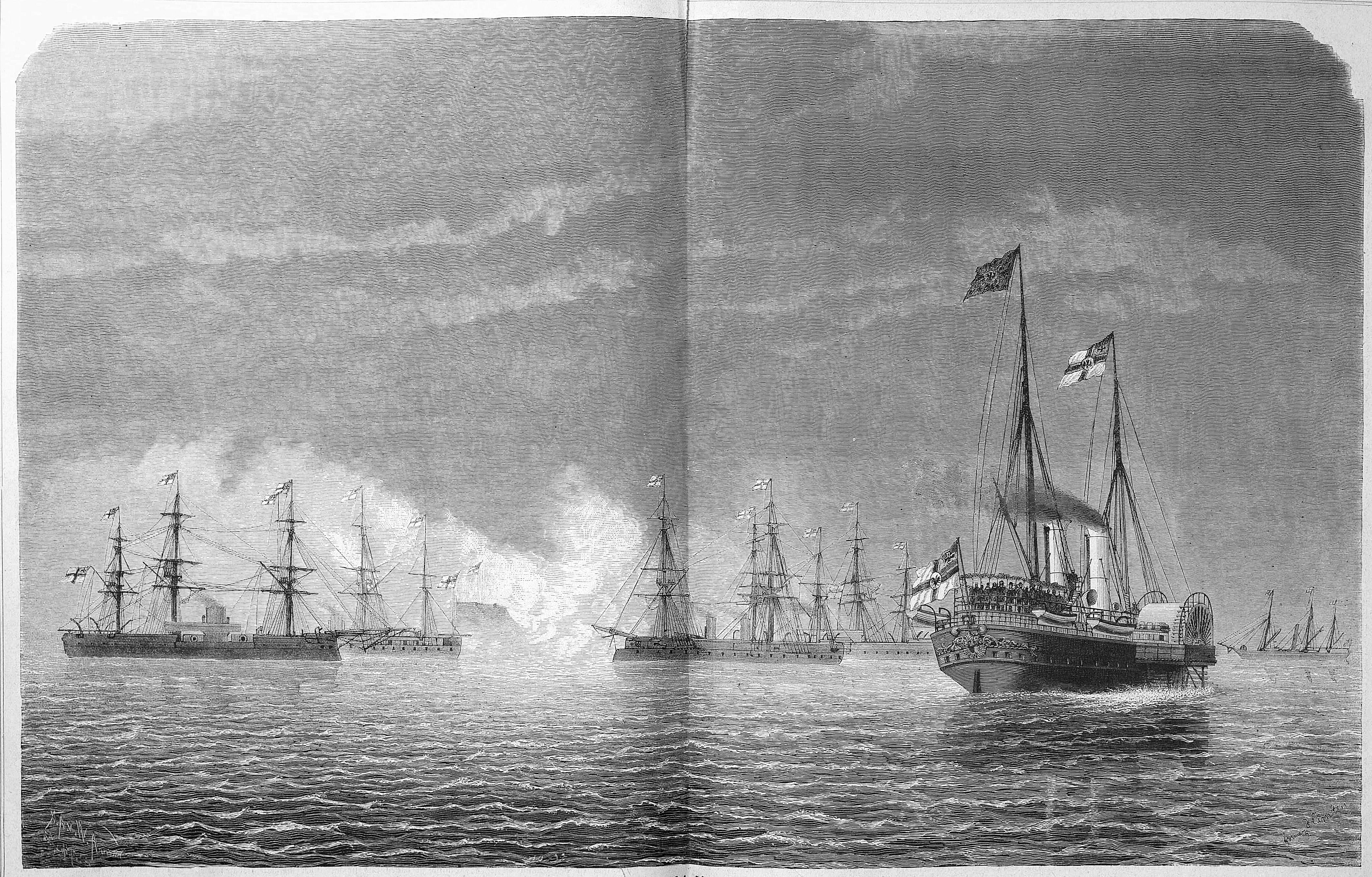 caption: "Das große Flottenmanöver bei Kiel: Angriff auf die Forts.Für die „Gartenlaube“ nach der Natur gezeichnet vom Marinemaler Franz. Hünten (1822-1887) in Hamburg.Panzerfregatte „Friedrich der Große“. Panzerfregatte „Friedrich Karl“. Fort Falkenstein. Panzerfregatte „Kronprinz“. Panzerfregatte „Preußen“. Kaiserliche Yacht „Hohenzollern“. Aviso „Grille“. N"